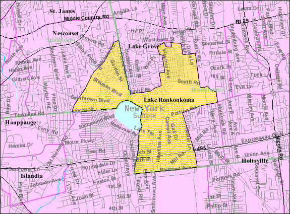 U.S. Census 2000 reference map for Lake Ronkonkoma